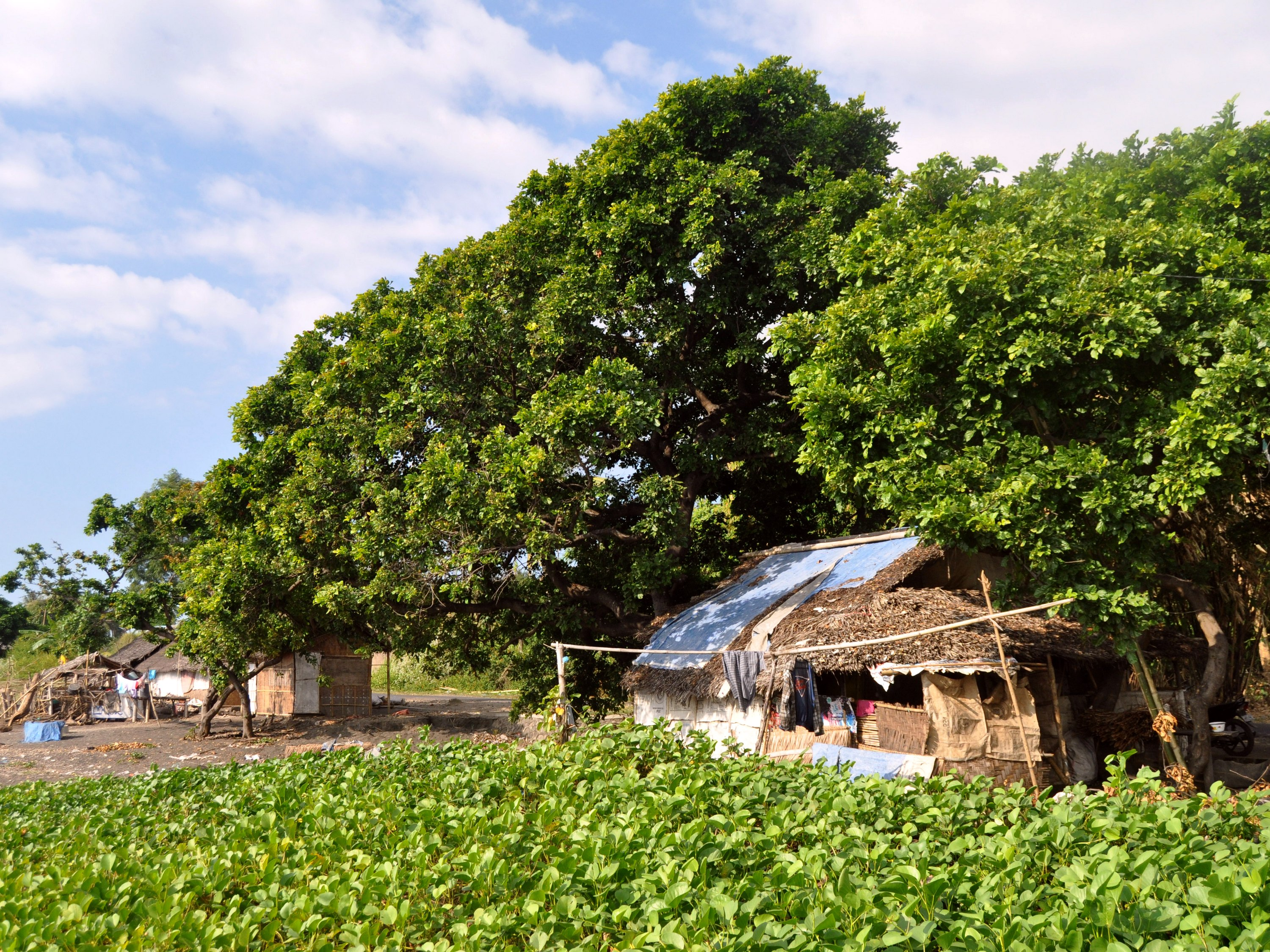 Pongamia pinnata habits (large trees); ground cover on sandy beach is Ipomoea pes-caprae. Montong Pal Beach, Gangga, Lombok, Indonesia.